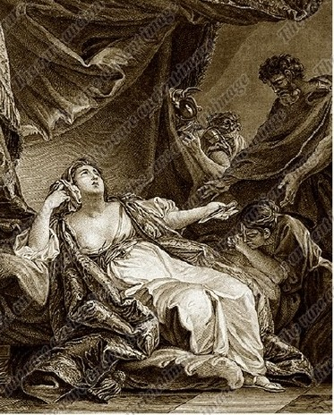 Lucretia is a legendary figure in the history of the Roman Republic. According to the story, told mainly by the Roman historian Livy and the Greek historian Dionysius of Halicarnassus (who lived in Rome at the time of the Roman Emperor Caesar Augustus), her rape by the king's son and consequent suicide were the immediate cause of the revolution that overthrew the monarchy and established the Roman Republic.